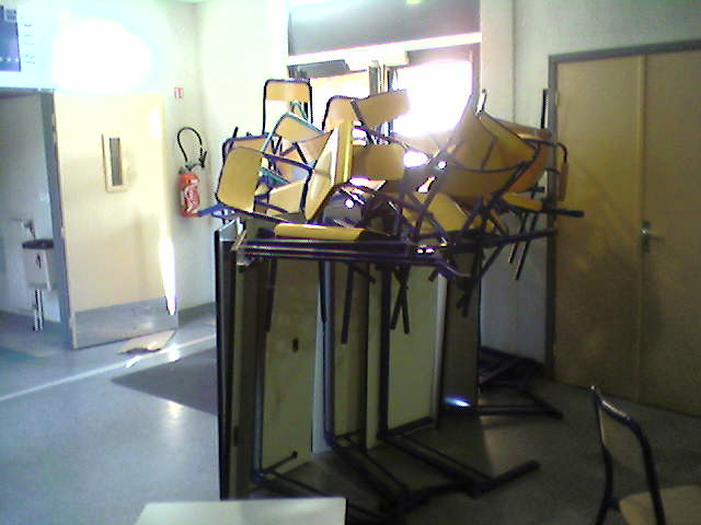 A photo of the barricades used by some students to block the doors of the Université_de_Picardie